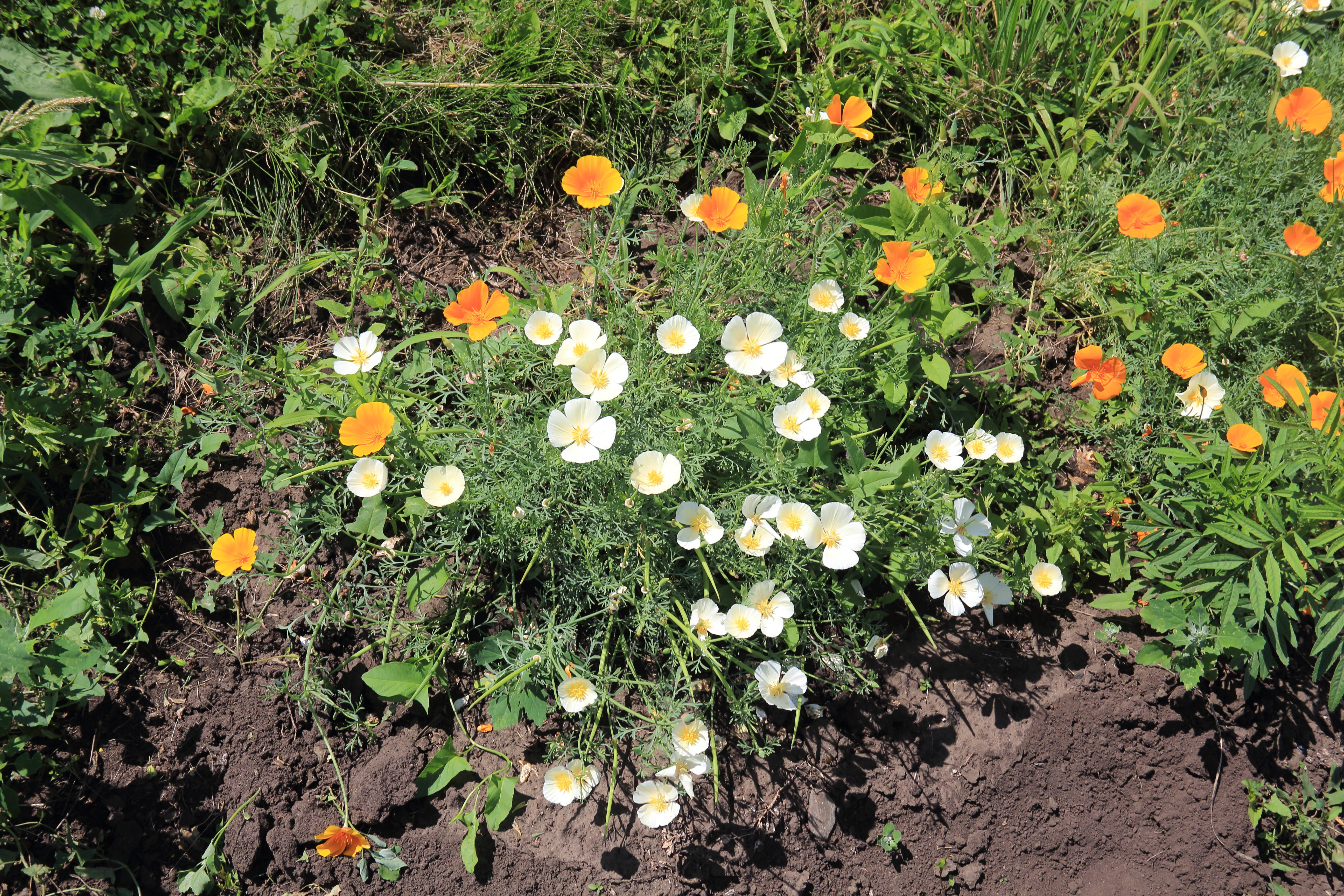 Eschscholzia californica in Russia